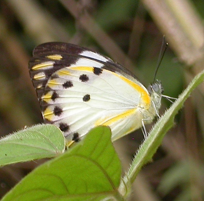 Belenois calypso, male, Ahozon forest, southern Benin, 22 Jan 2012